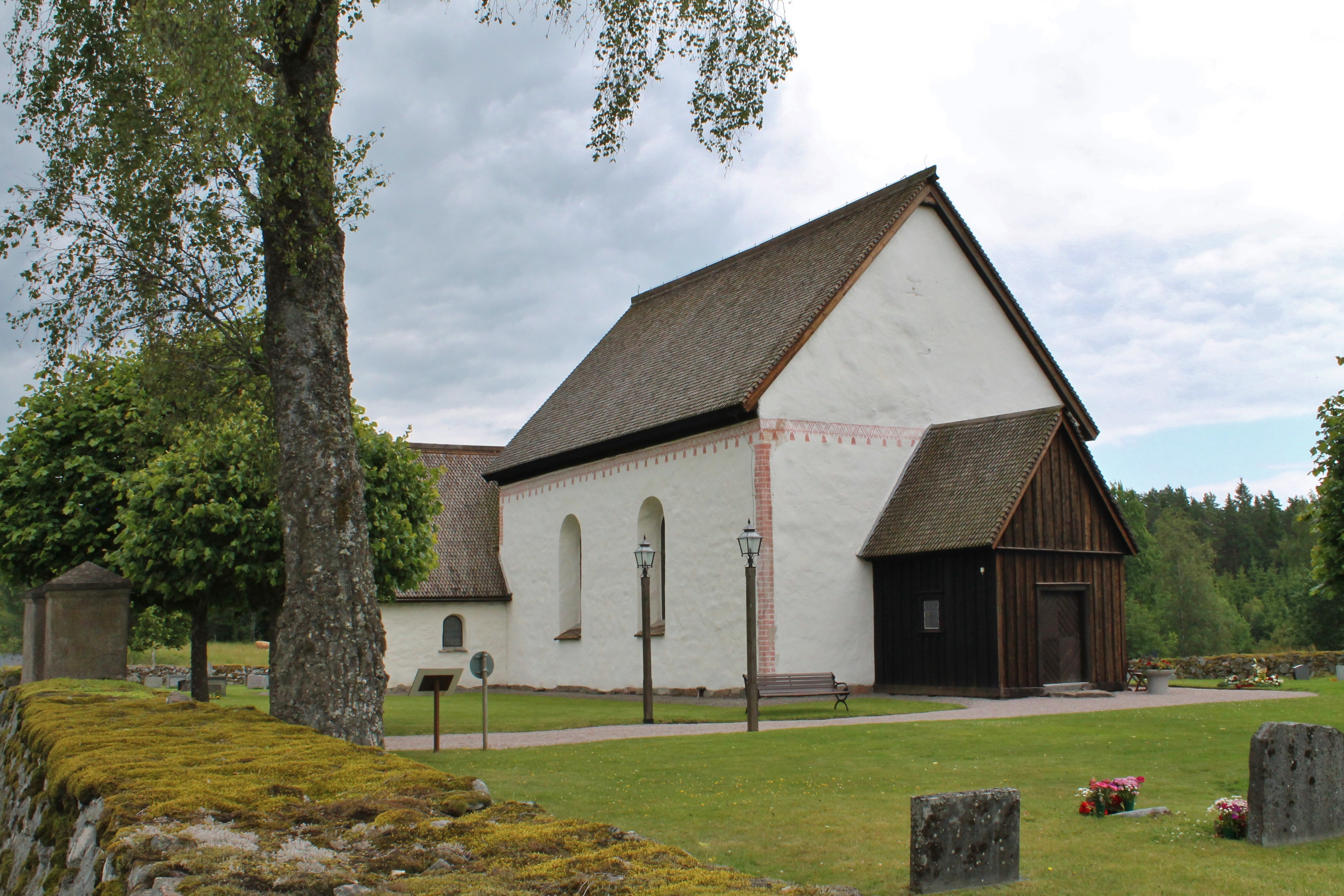 Lannaskede old Church.Exterior